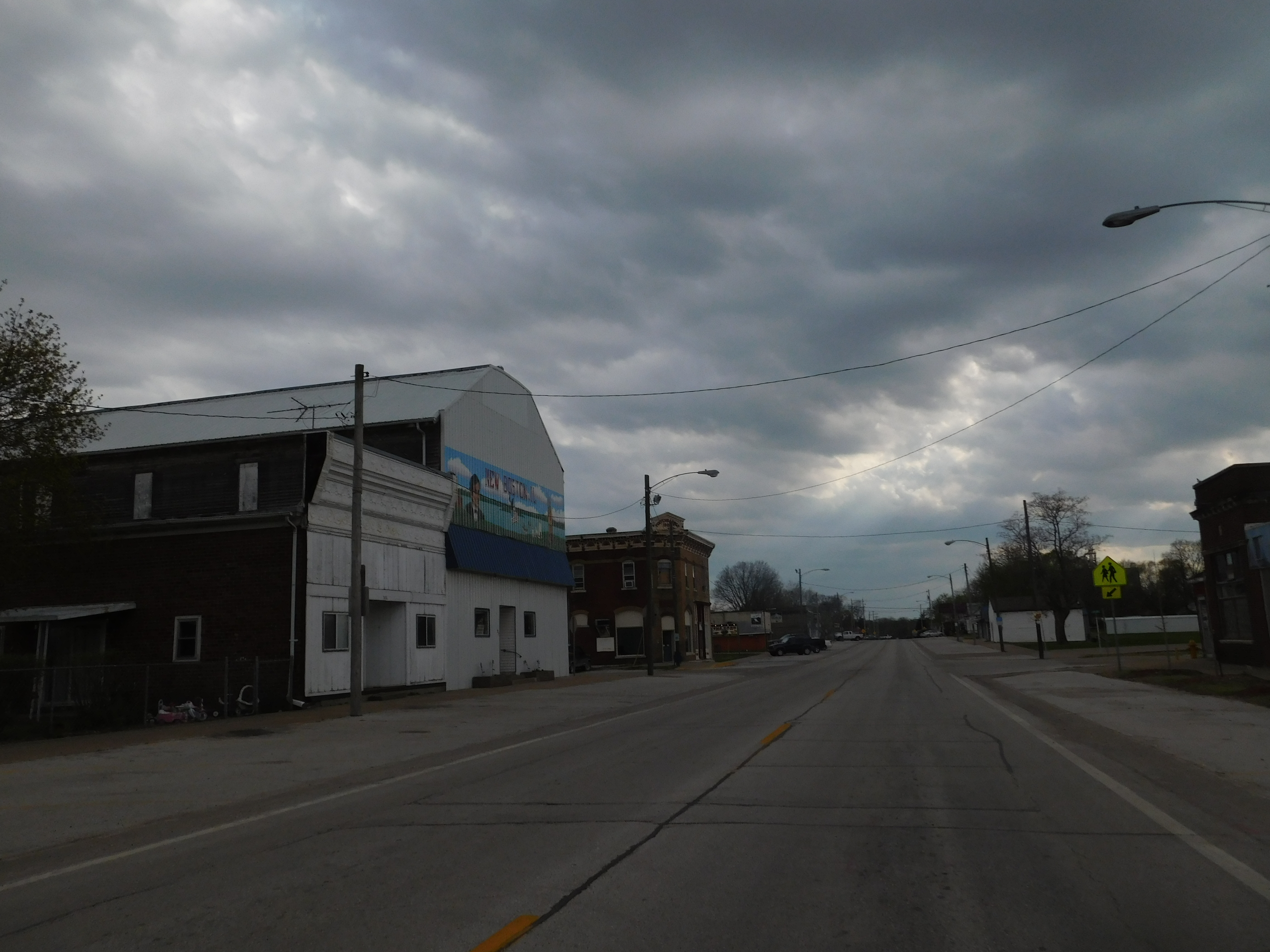 Downtown New Boston, Illinois in April 2017.